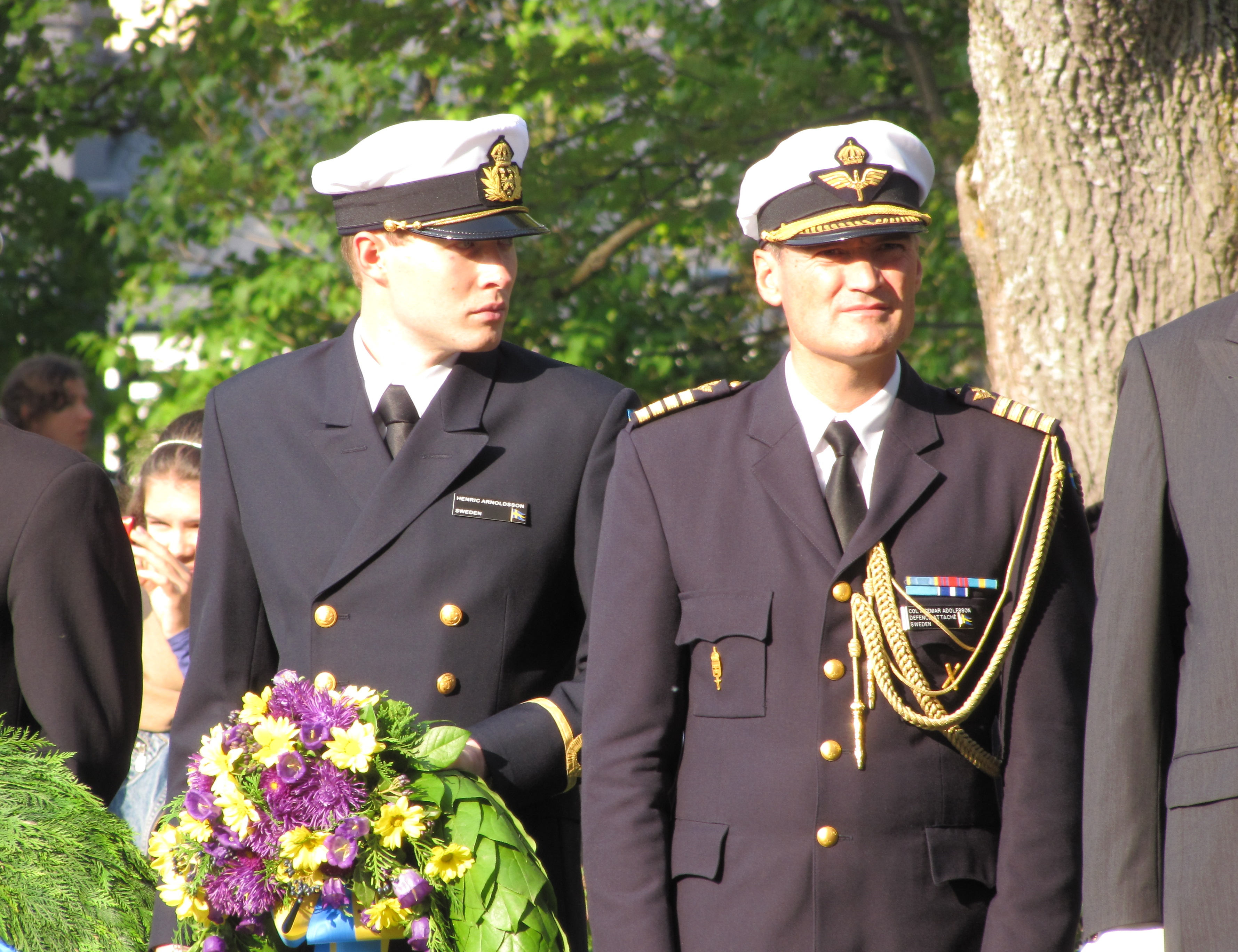 Swedish military attaché to Finland colonel Ingemar Adolfsson (right) and his aide, Henric Arnoldsson. Photographed in Suomenlinna at the 300th birthday ceremony of Augustin Ehrensvärd.